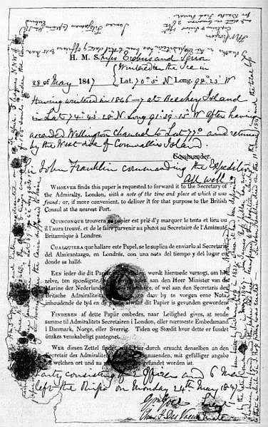 A note found in the Arctic detailing the fate of the Franklin expedition.